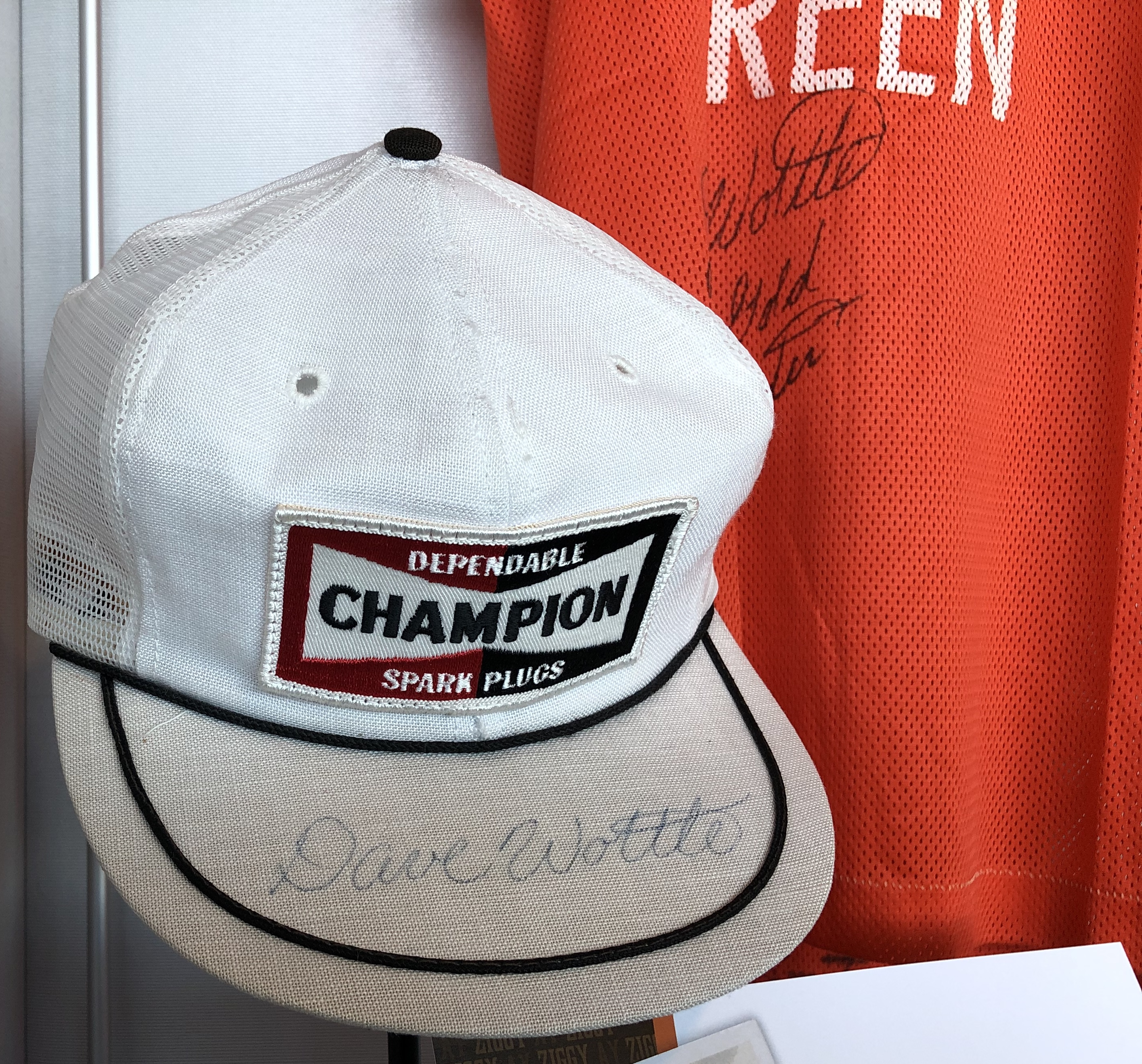 Dave Wottle autographed hat and jersey